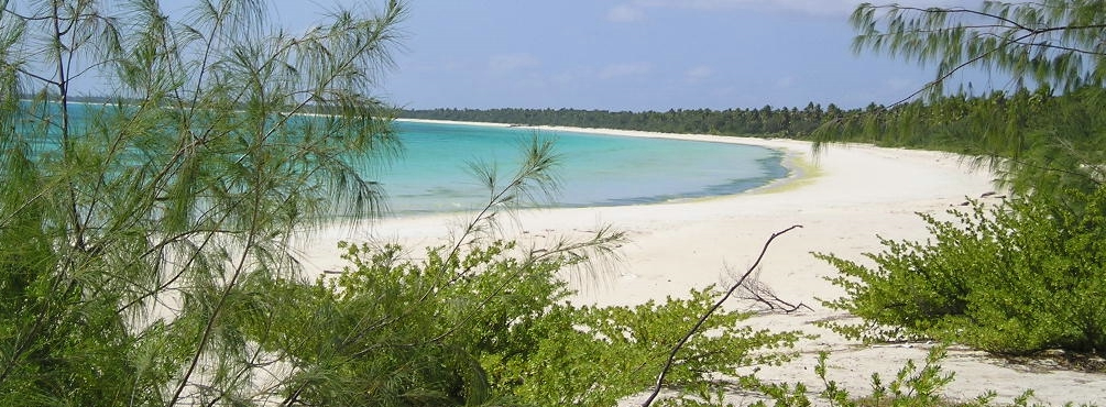 A beach in Ouvea, New Caledonia